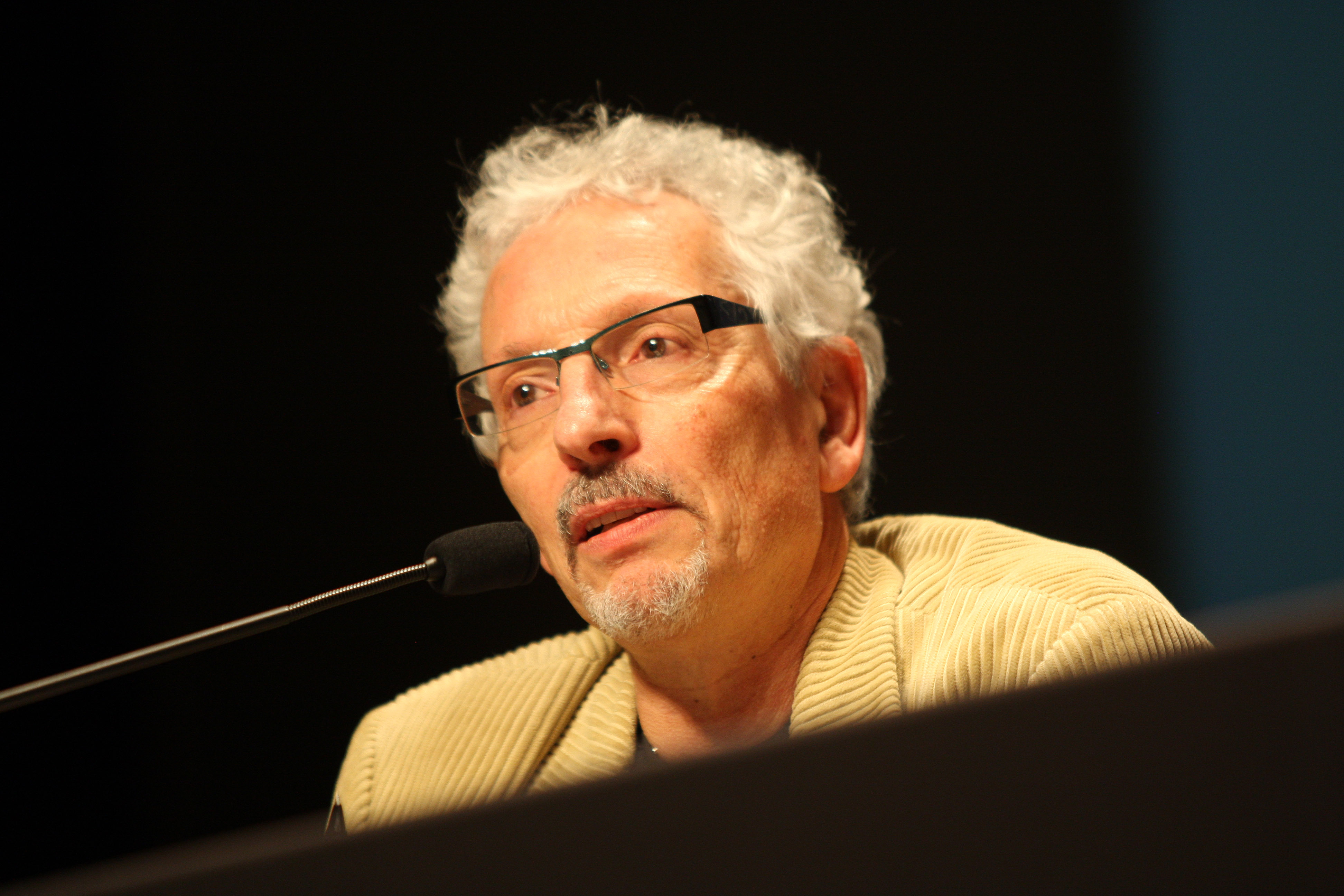 Judge Santiago Vidal conference in Sant Joan Despí (Catalonia).